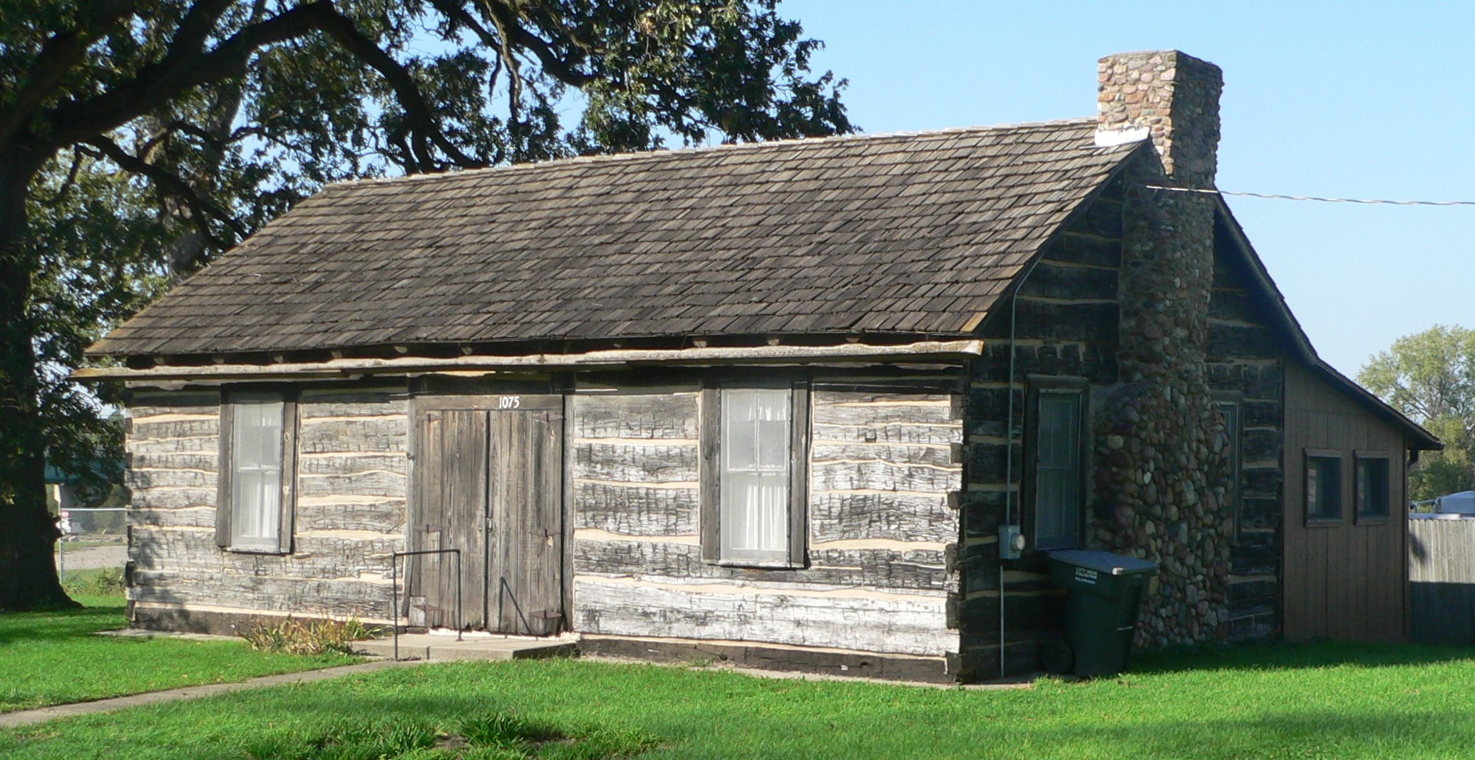 Theophile Bruguier cabin, located in Riverside Park in Sioux City, Iowa; seen from the northeast.